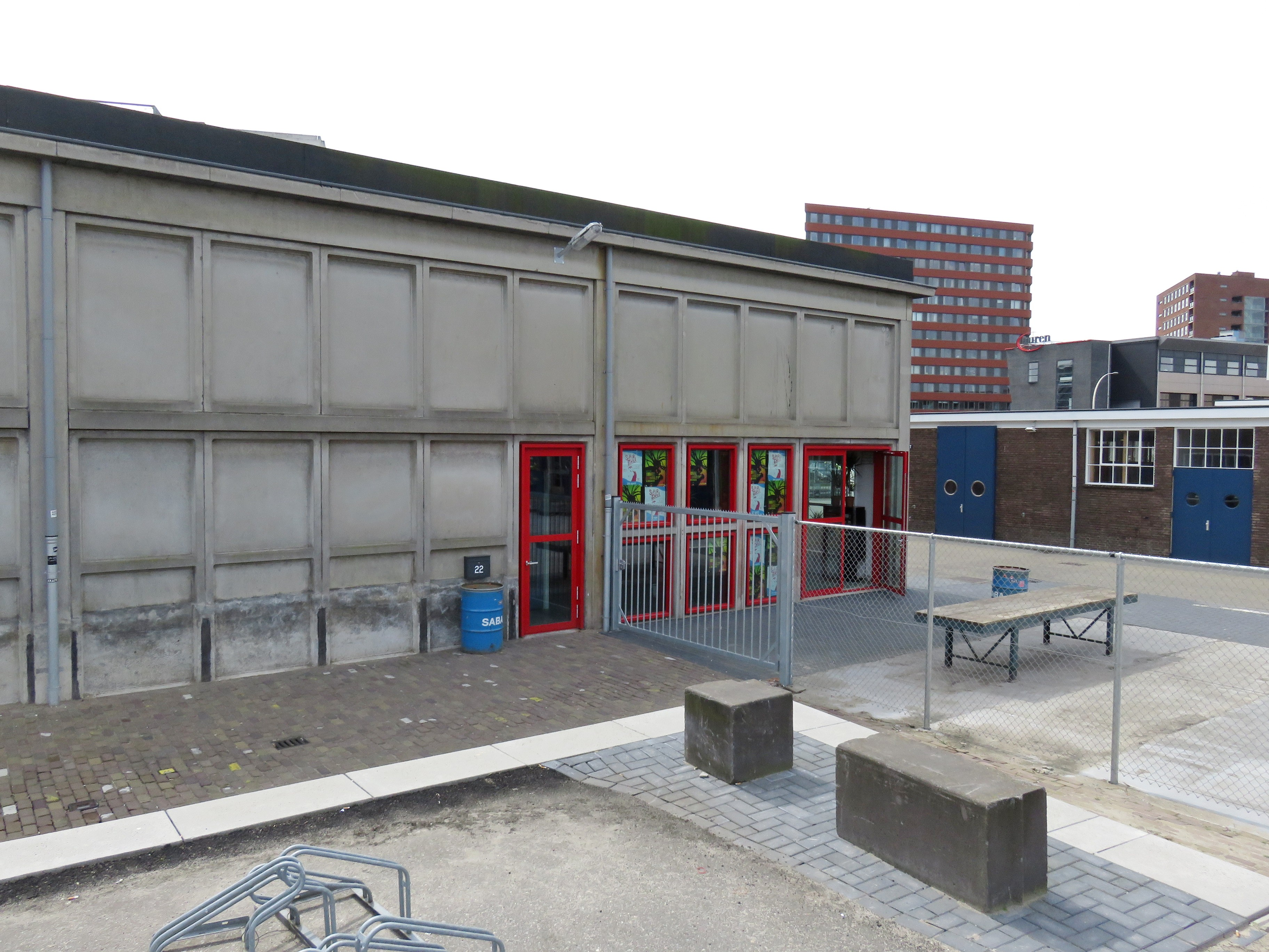 Entrance of pop podium Fluor in Amersfoort (NL)